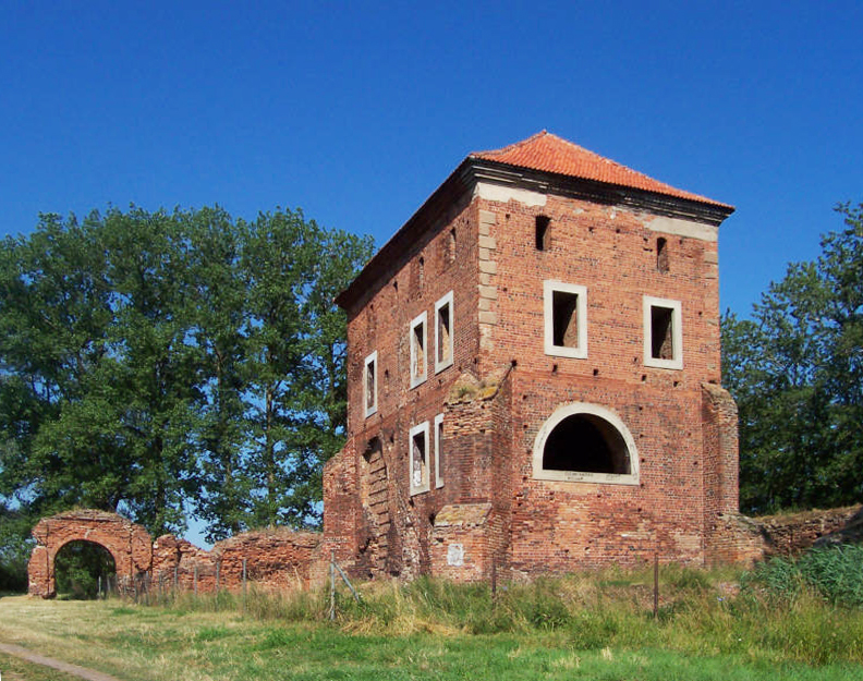 Castle in Gołańcz